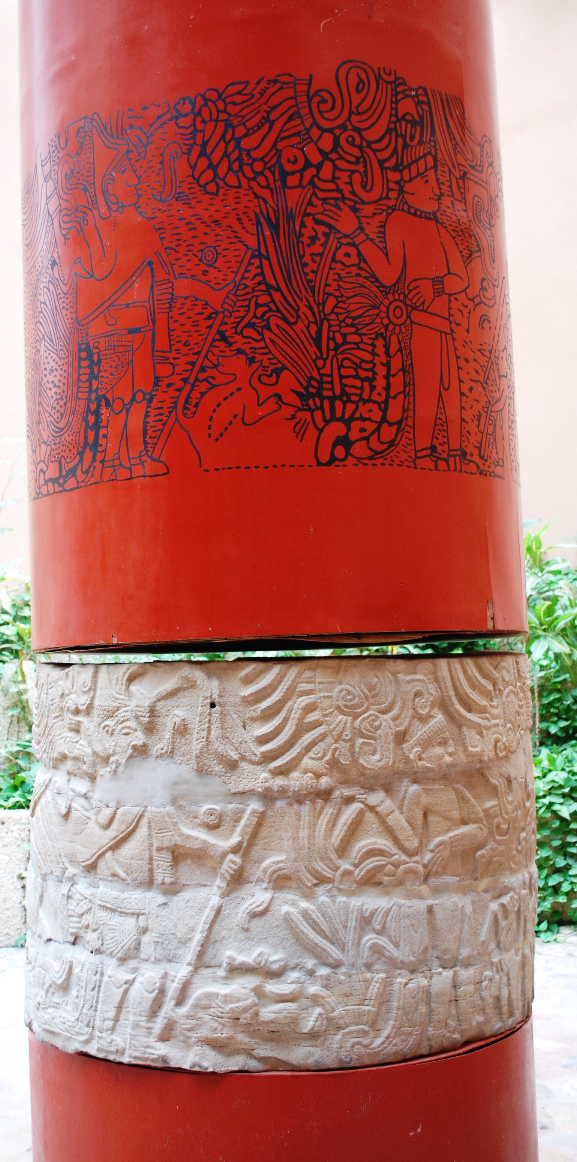 One of the column fragments from the Building of the Columns at the site museum of Tajin, Veracruz state, Mexico